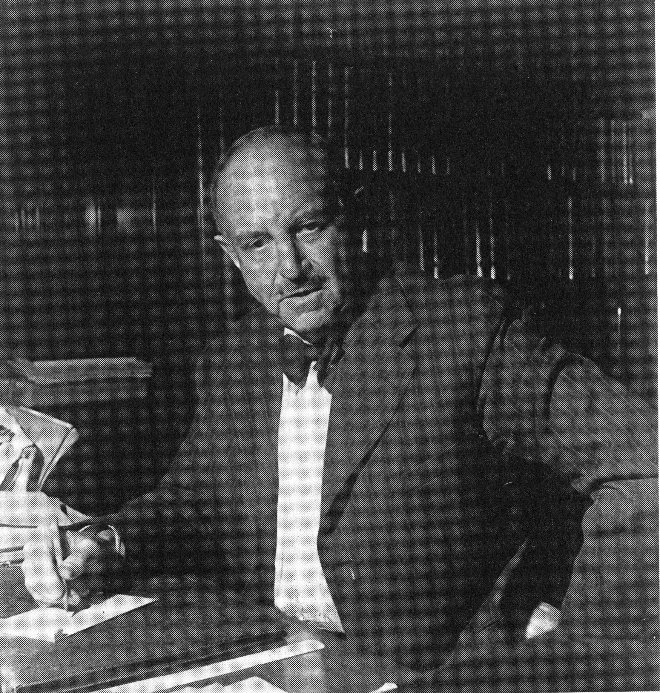 Swedish historian Carl Grimberg at 64.